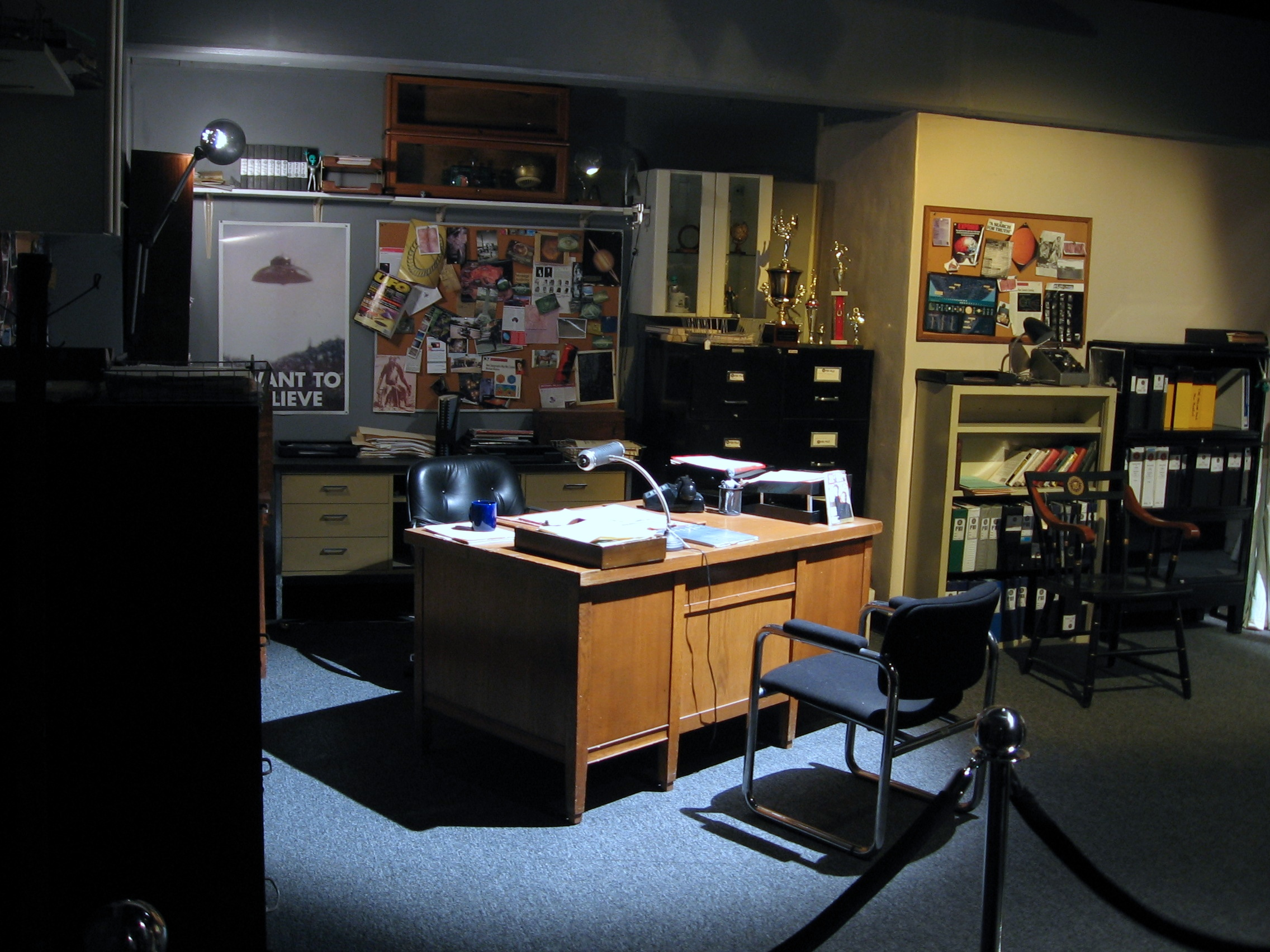 Mulder’s office from "The X Files".